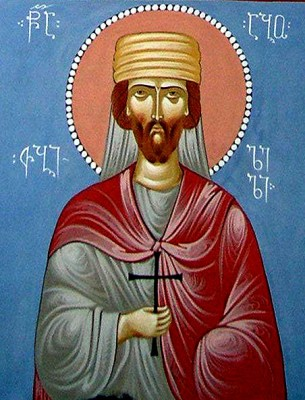 Photograph of Georgian icon